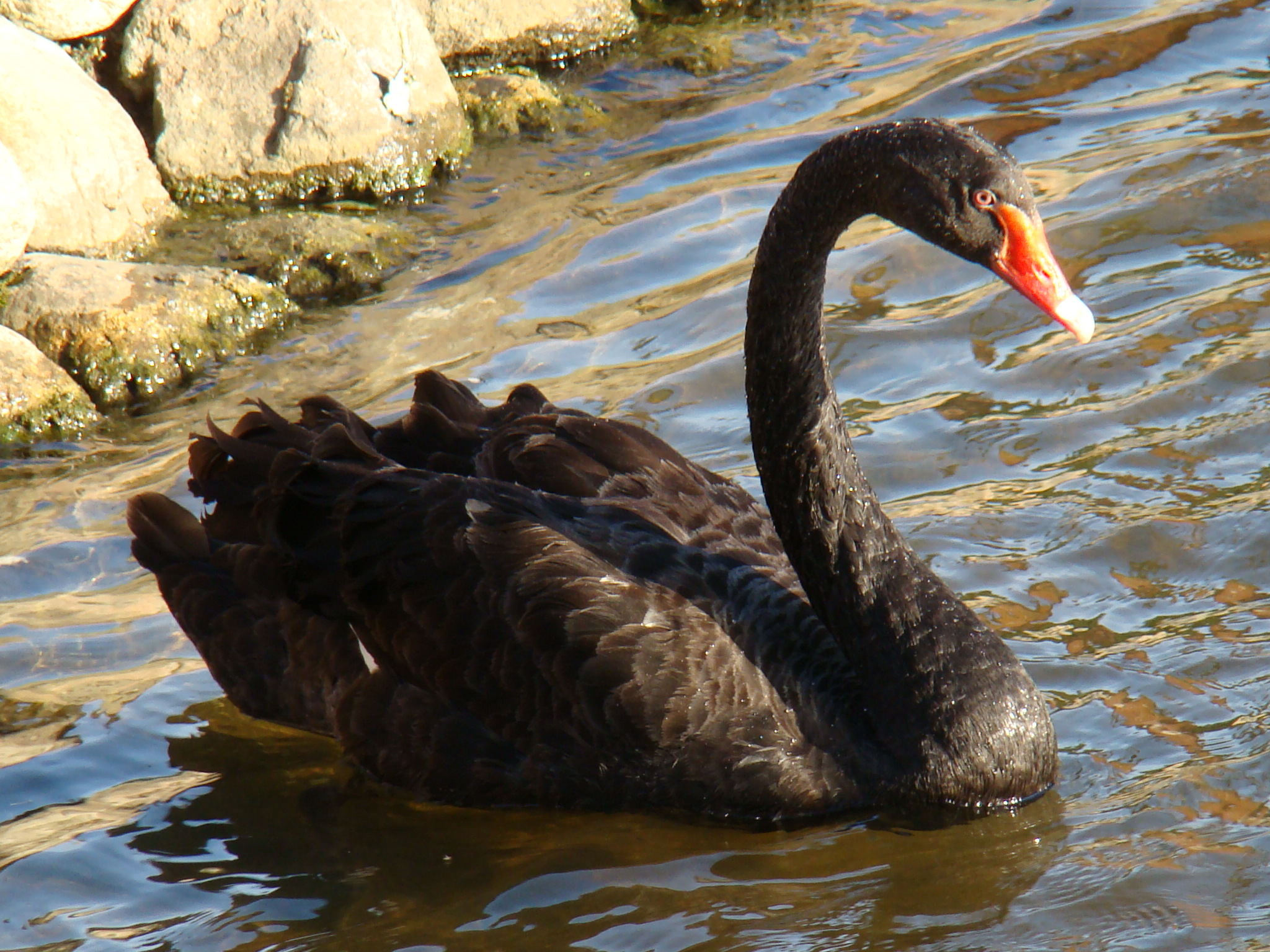 Photo of the Black Swan (Cygnus atratus) in in Belmontas, Vilnius, Lithuania.